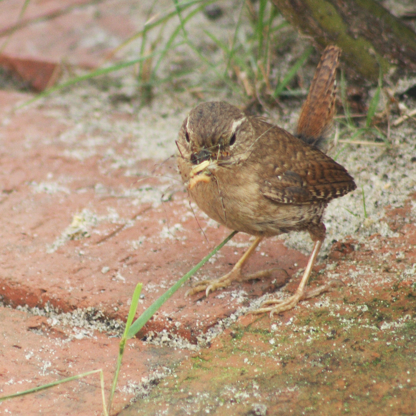 Eurasian Wren (Troglodytes troglodytes), Otterndorf, Germany